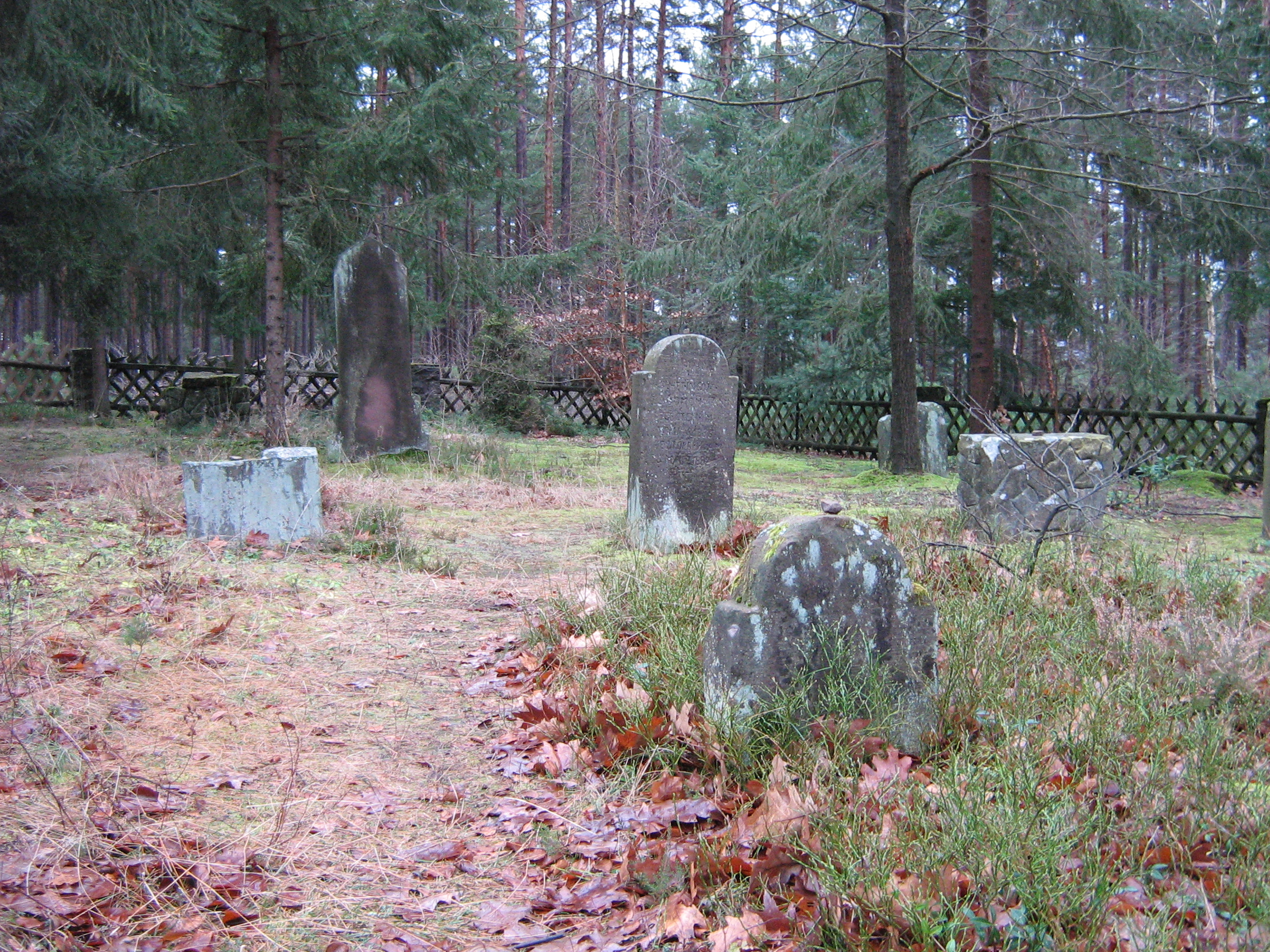 Jewish cemetery, Carlsberg (Rhineland-Palatinate, Germany)